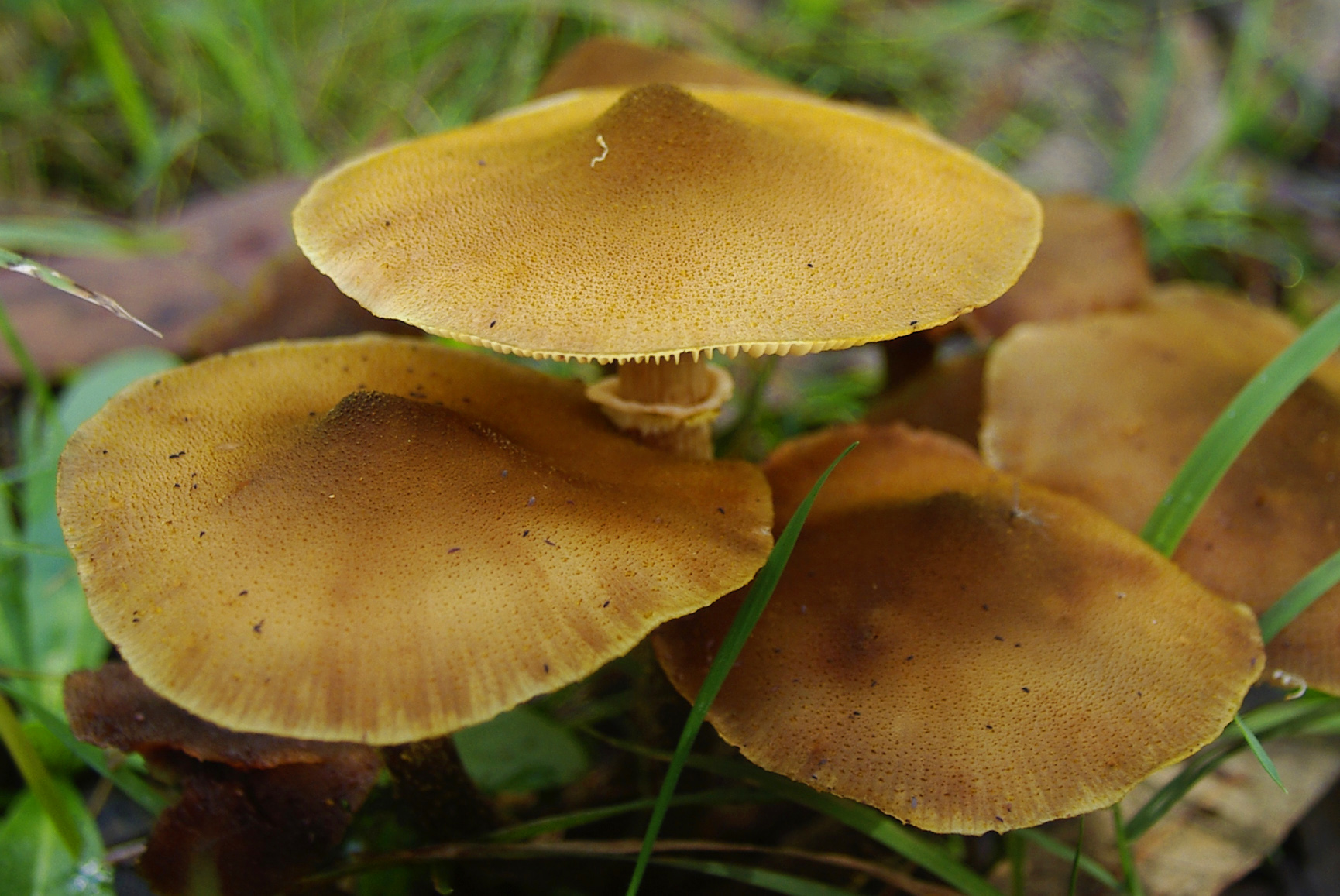 The honey mushroom Armillaria luteobubalina Watling & Kile. Photographed in Dandenong Ranges National Park, Victoria, Australia.